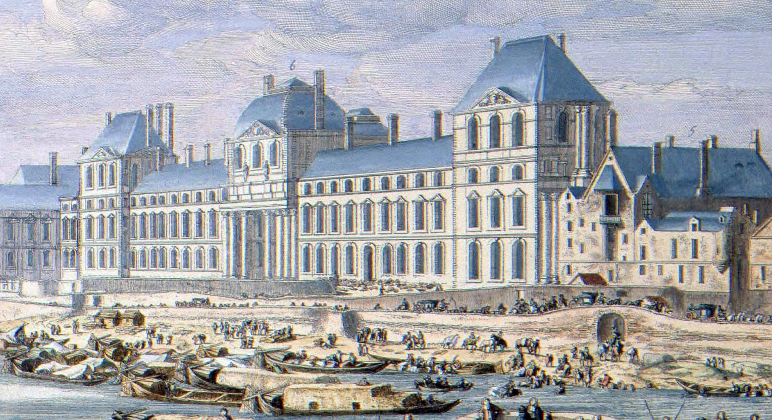 Detail from an engraving by Huchtenberg showing the south facade of the Louvre about 1665 as extended to the east by Louis Le Vau